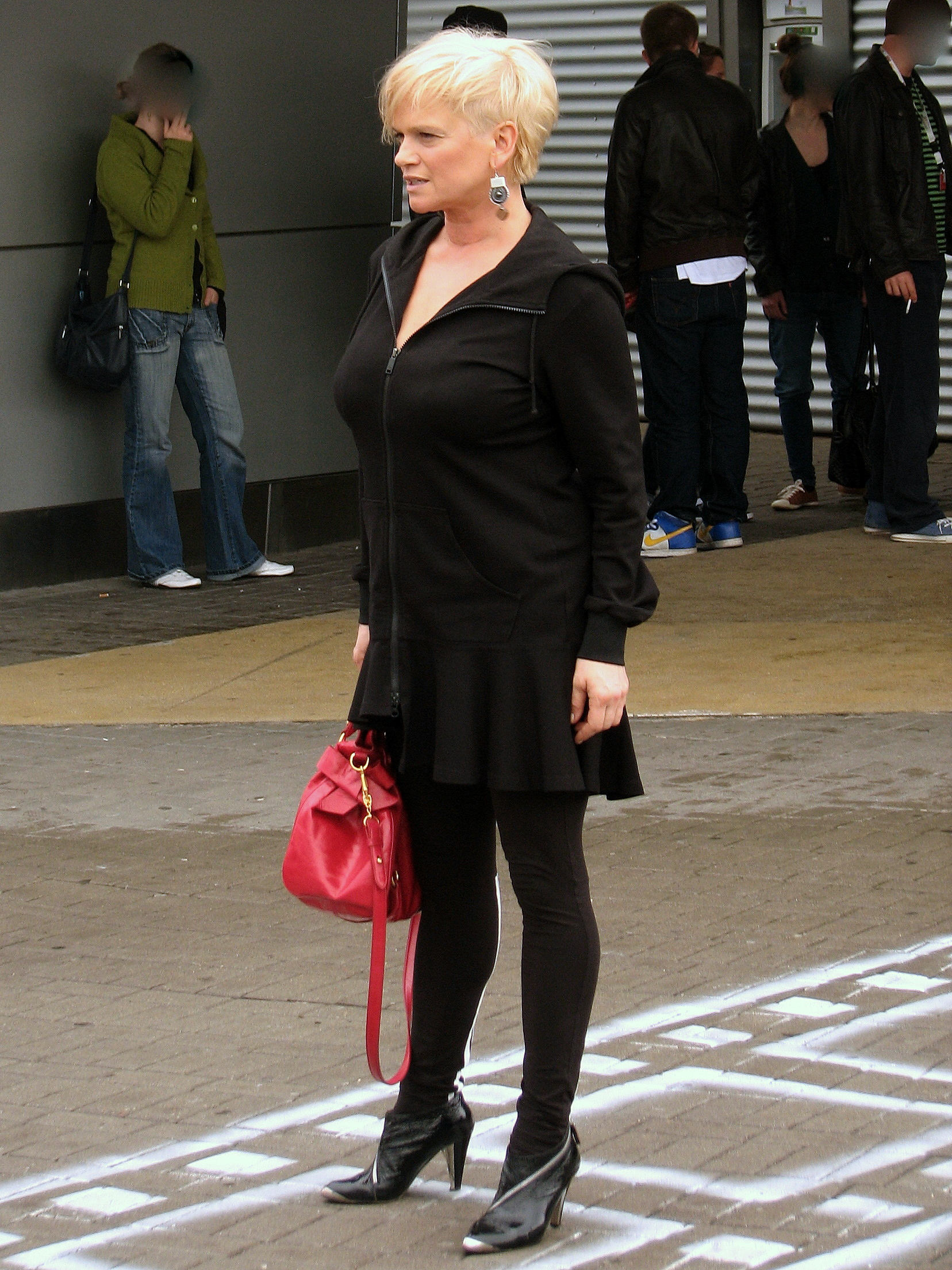 Katarzyna Figura during XXXV Polish Film Festival in Gdynia 2010.